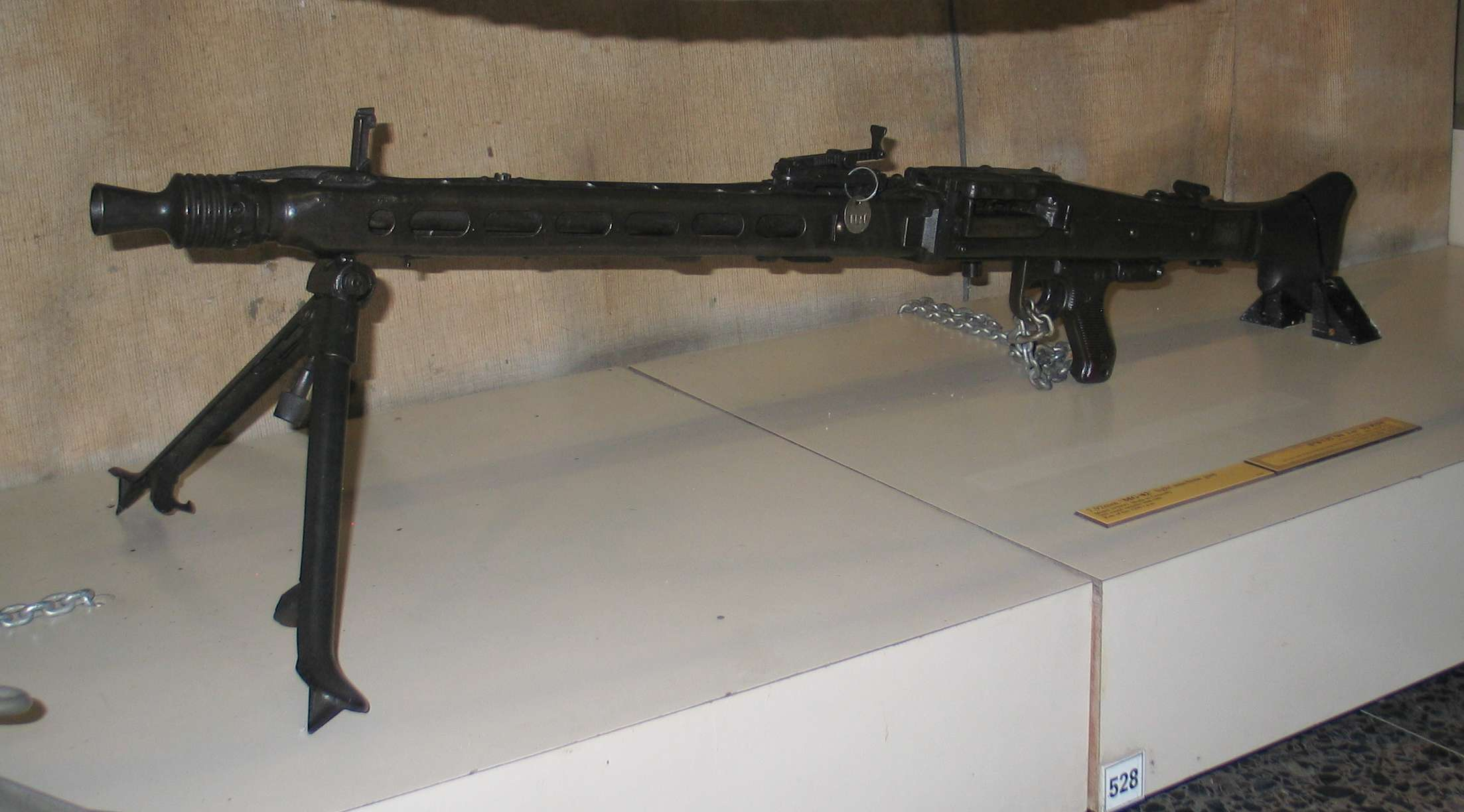 Batey ha-Osef museum, Tel Aviv, Israel. MG-42 machine gun.